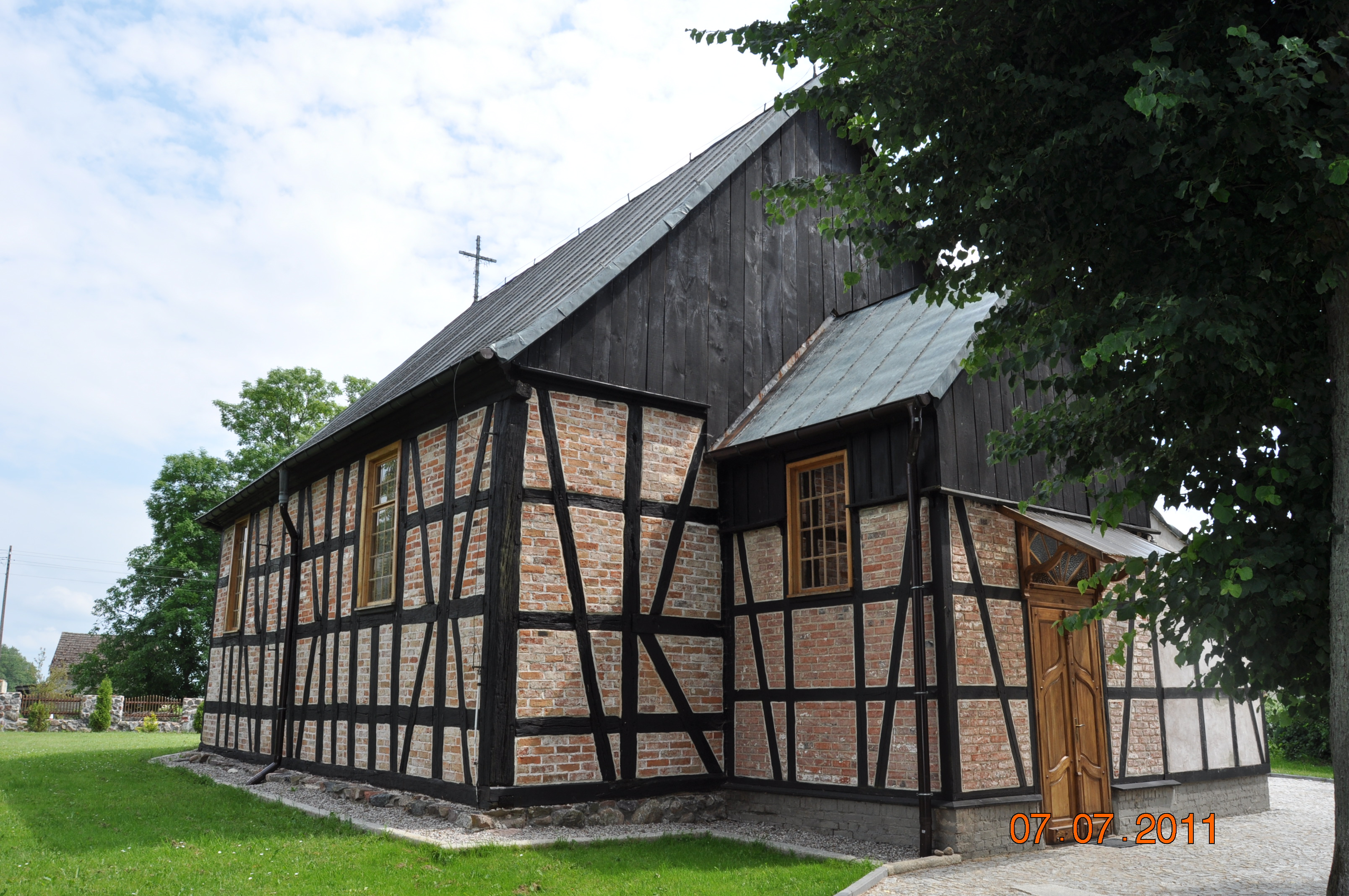 Exaltation of the Holy Cross church in Słonowice, Poland